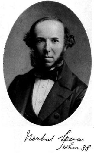 Picture of Herbert Spencer at age 38